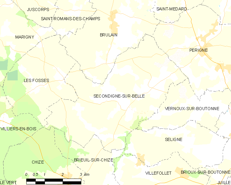 Map of French municipality Secondigné-sur-Belle